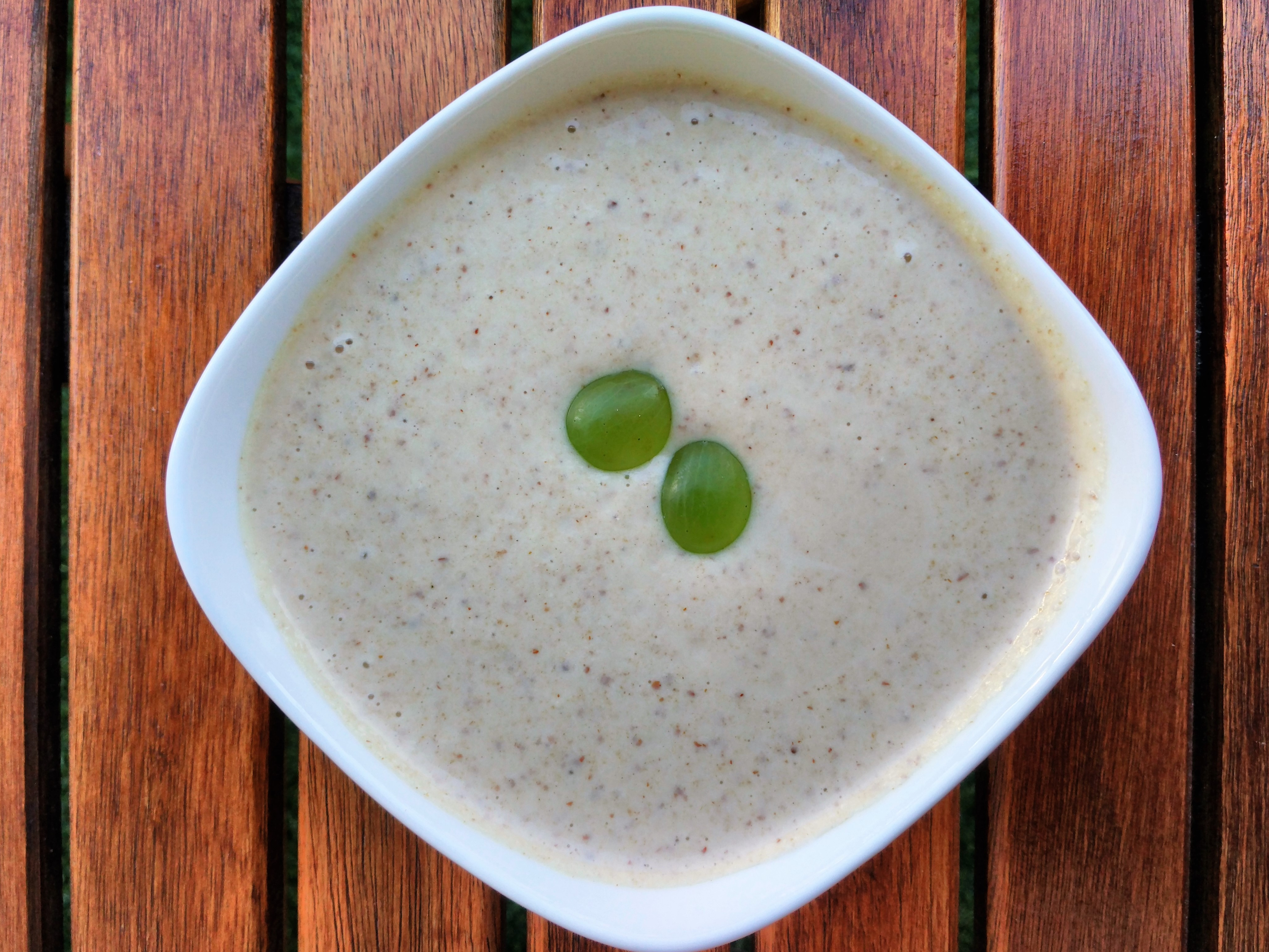 A bowl of ajo blanco - a cold soup of bread, garlic and almonds from Andalusia